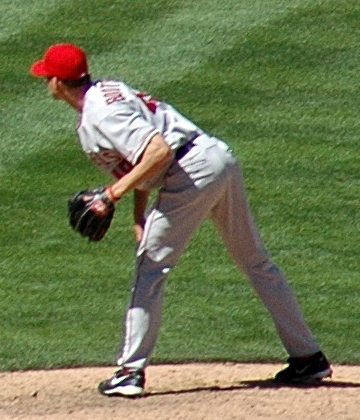 Chris Bootcheck